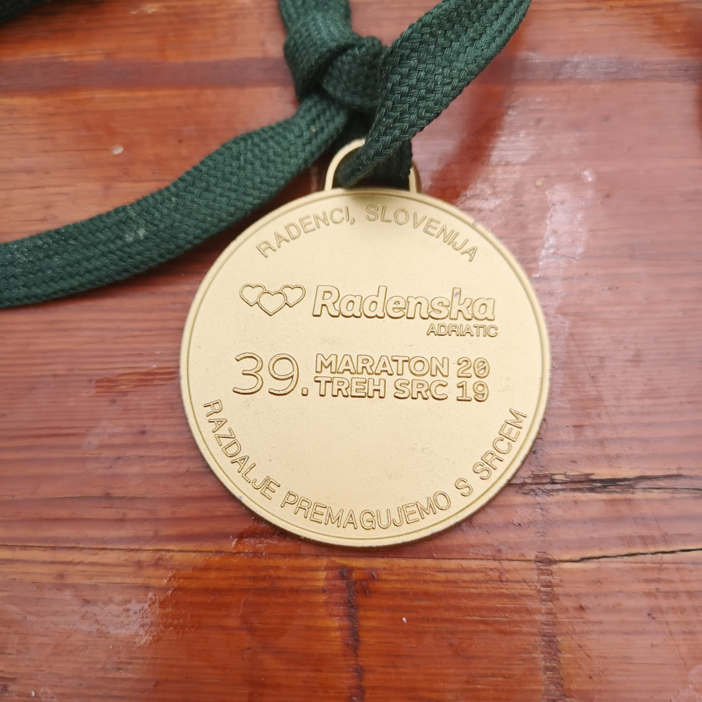 Memorial medal received for the successful completion of the 39th Radenci Three Hearts half marathon. Inscription: Radenci, Slovenia Radenska, Adriatic 39th Three Hearts Marathon 2019 We Overcome Distances with Our Hearts